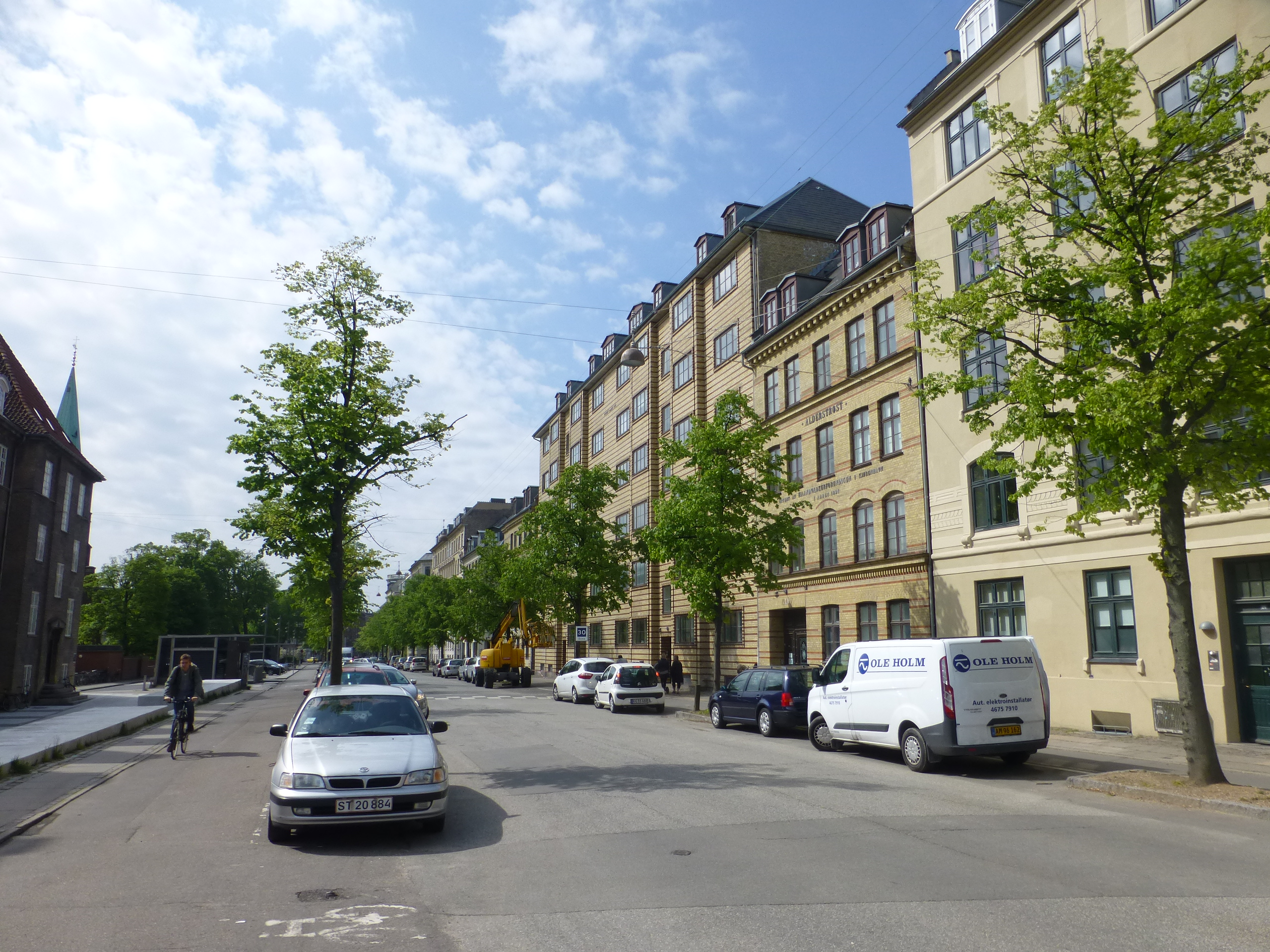 The street Nørre Alle at Nørre Sidealle in Nørrebro in Copenhagen.